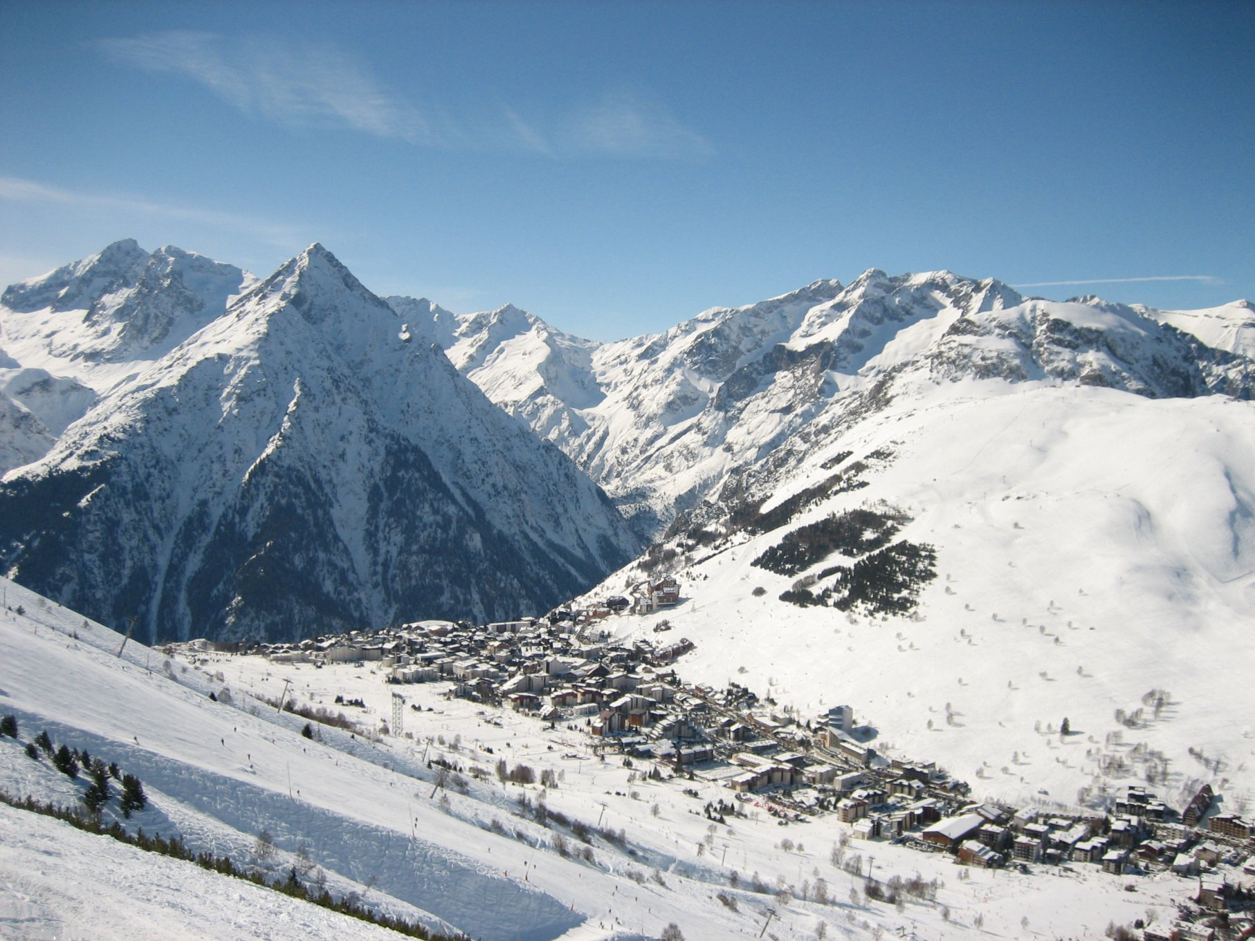 The French ski resort Les Deux Alpes (1650 m) has some of the highest skiing in the Alps, with lifts running to 3600 m. A purpose-built resort, it nestles in a cleft between the villages of Venosc and Mont de Lans. Picture taken by User:Wurzellerwurzeller on 23 Feb 2006 and released under the terms of the GFDL licence.